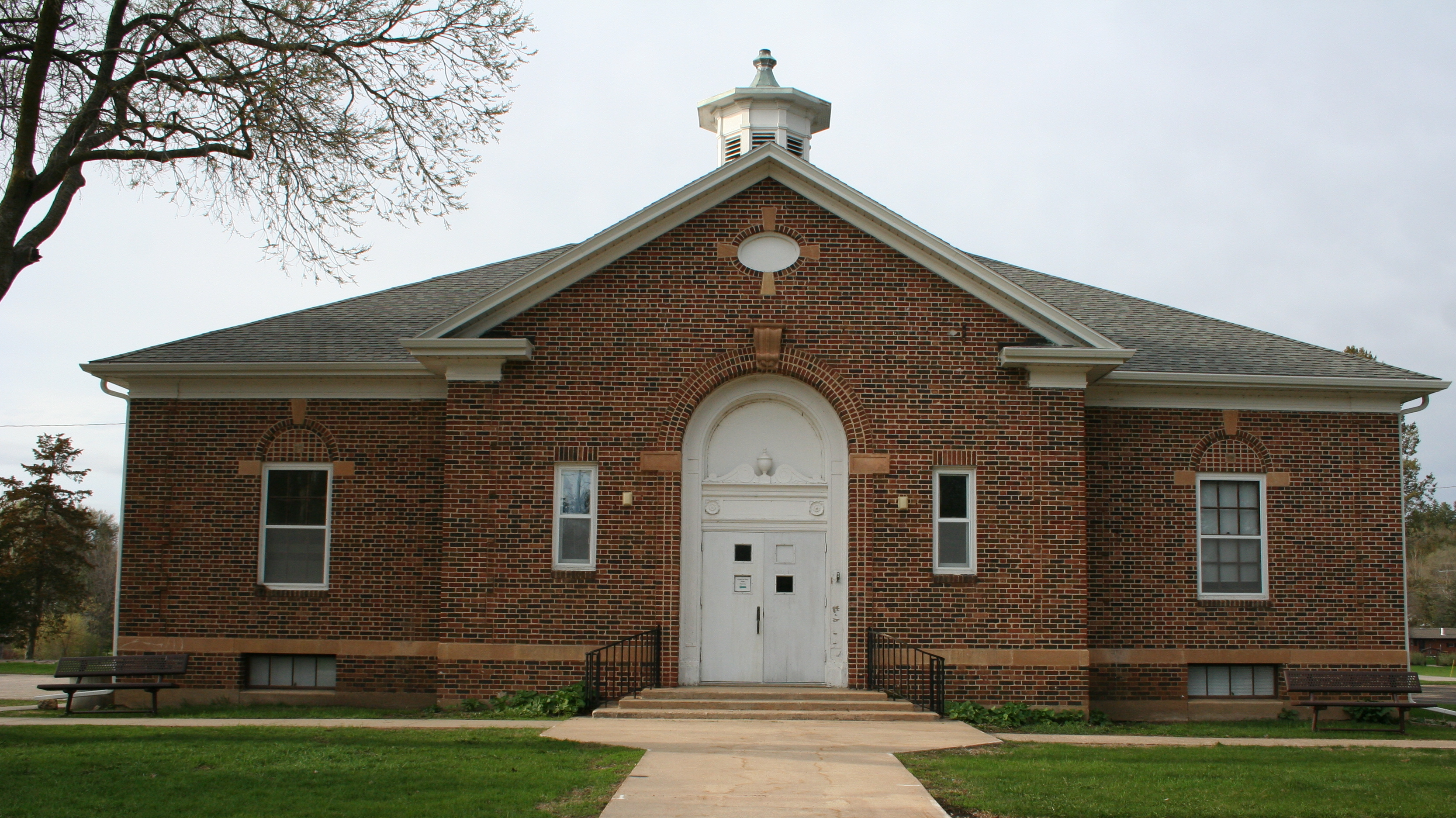 Town Hall, Oronoco, Minnesota. Built in 1926. Harold Crawford, architect.